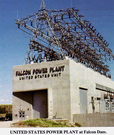 Falcon Dam Power Station, Texas